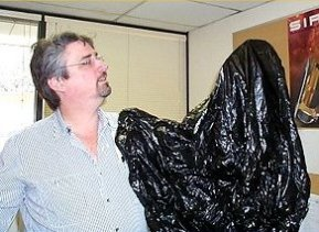 Much of a person's energy is radiated away in the form of infrared energy. Some materials are transparent to infrared light, while opaque to visible light (note the plastic bag). Other materials are transparent to visible light, while opaque or reflective to the infrared (note the man's glasses).